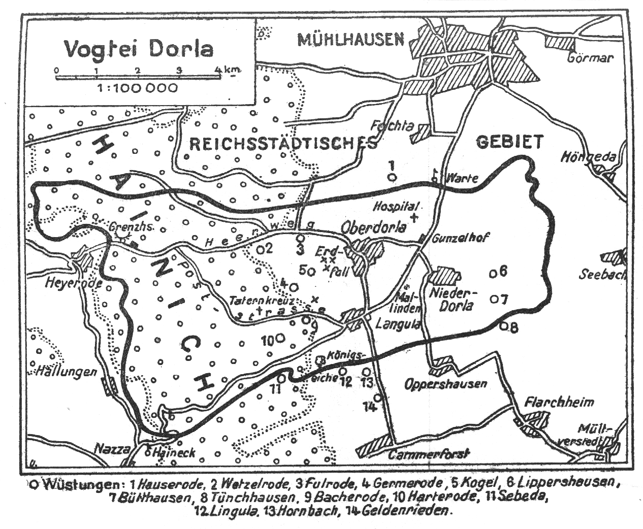 Map of the historical district Vogtei Dorla in Thuringia.